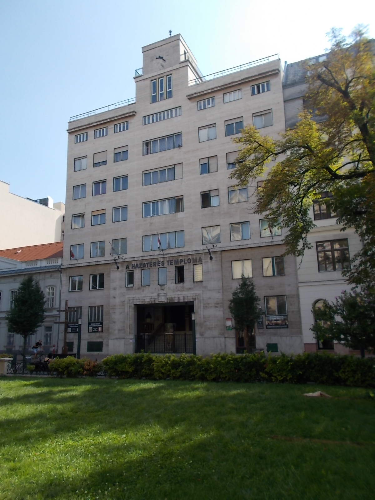 Reformed church. - 2 Szabadság Square, , Lipótváros neighbourhood, District V, Budapest.